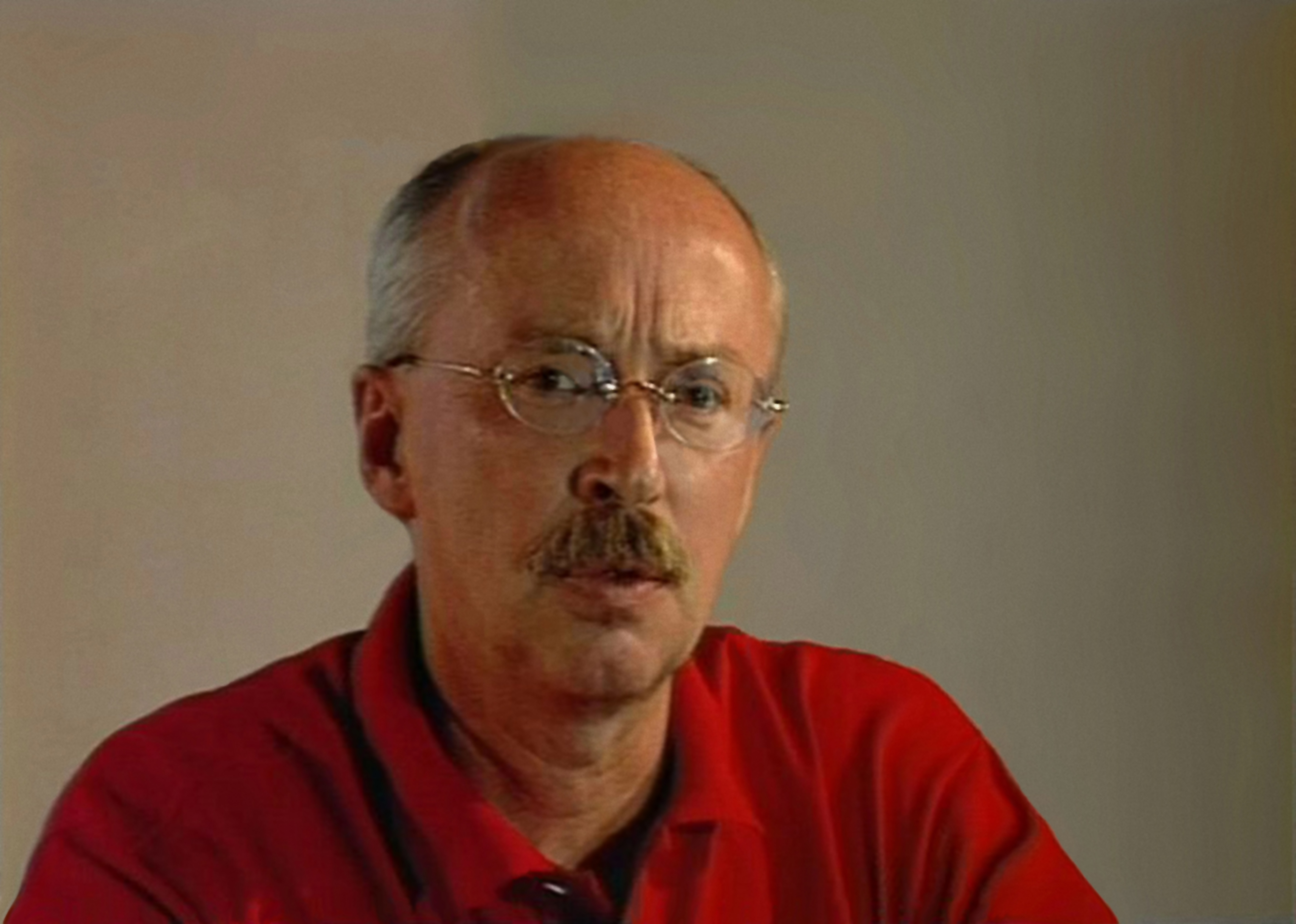 The known modern Russian philosopher, the publicist, the author of films